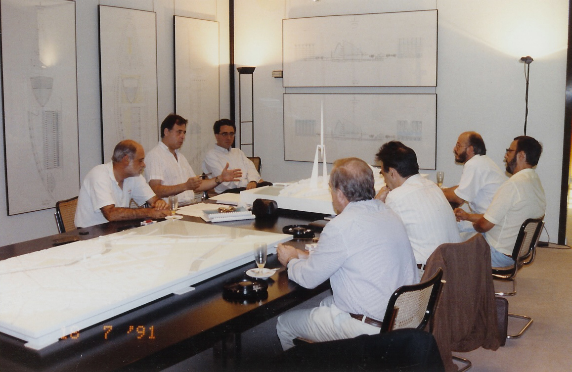 Santiago Calatrava with Antonio Ten Ros, first project director of the future City of Sciences, of Valencia, and his team, Drs. Aguilella, Alcalde, Azagra, Rivas and Valdés. On the table and in the walls, the first drawings and models of the buildings. A model of the after discarded tower of telecommunications can be observed.